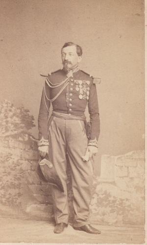 Hippolyte Mircher (1820-1878) soldier and topgrapher